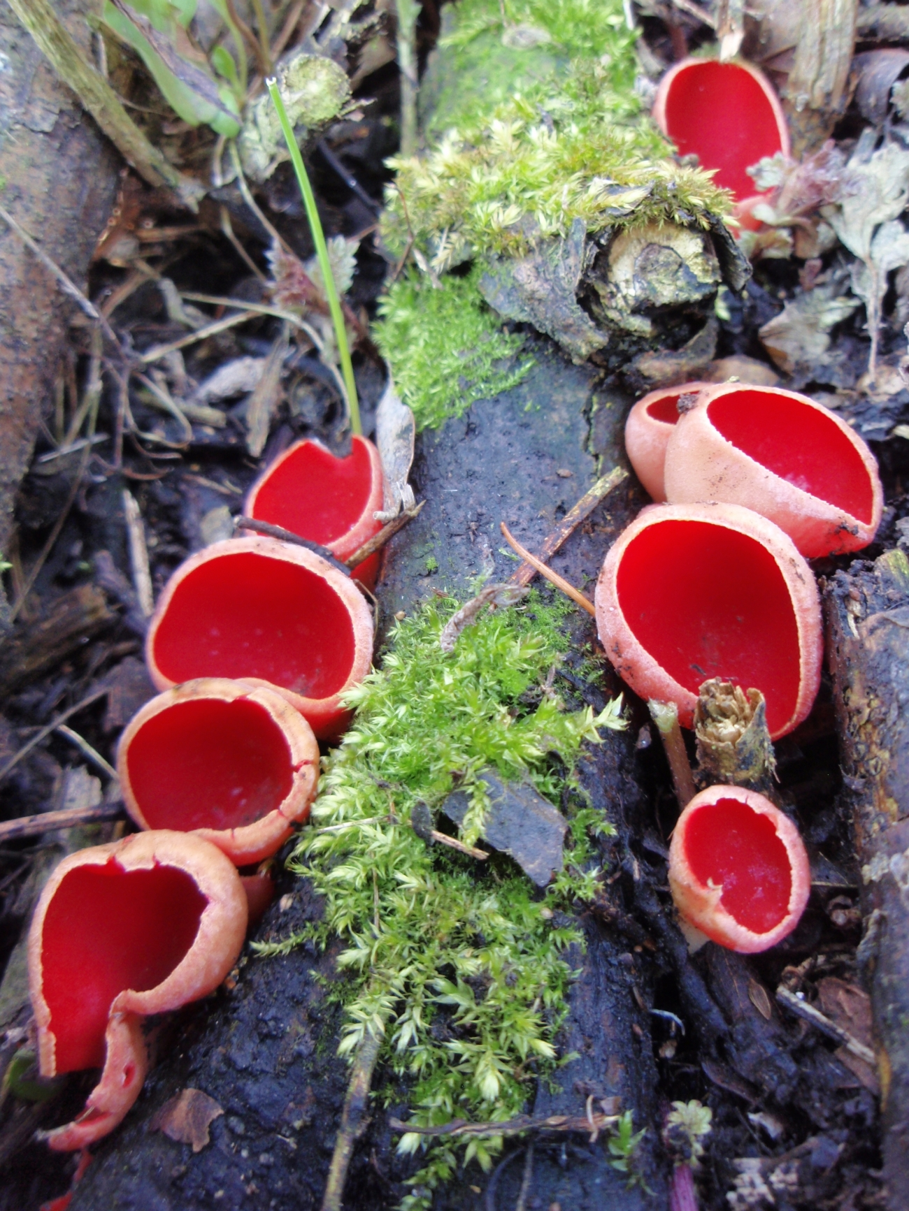 Sarcoscypha austriaca